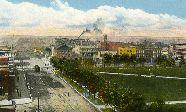 Inclusive Date(s): 1912-1916 souvenir folder, postcards of Lethbridge 18 colourized postcards 10.1 cm x 15 cm ea To obtain high quality and larger reproductions of this image please visit the Galt Museum & Archives website: and include thIs number in your request: 19891067000-006